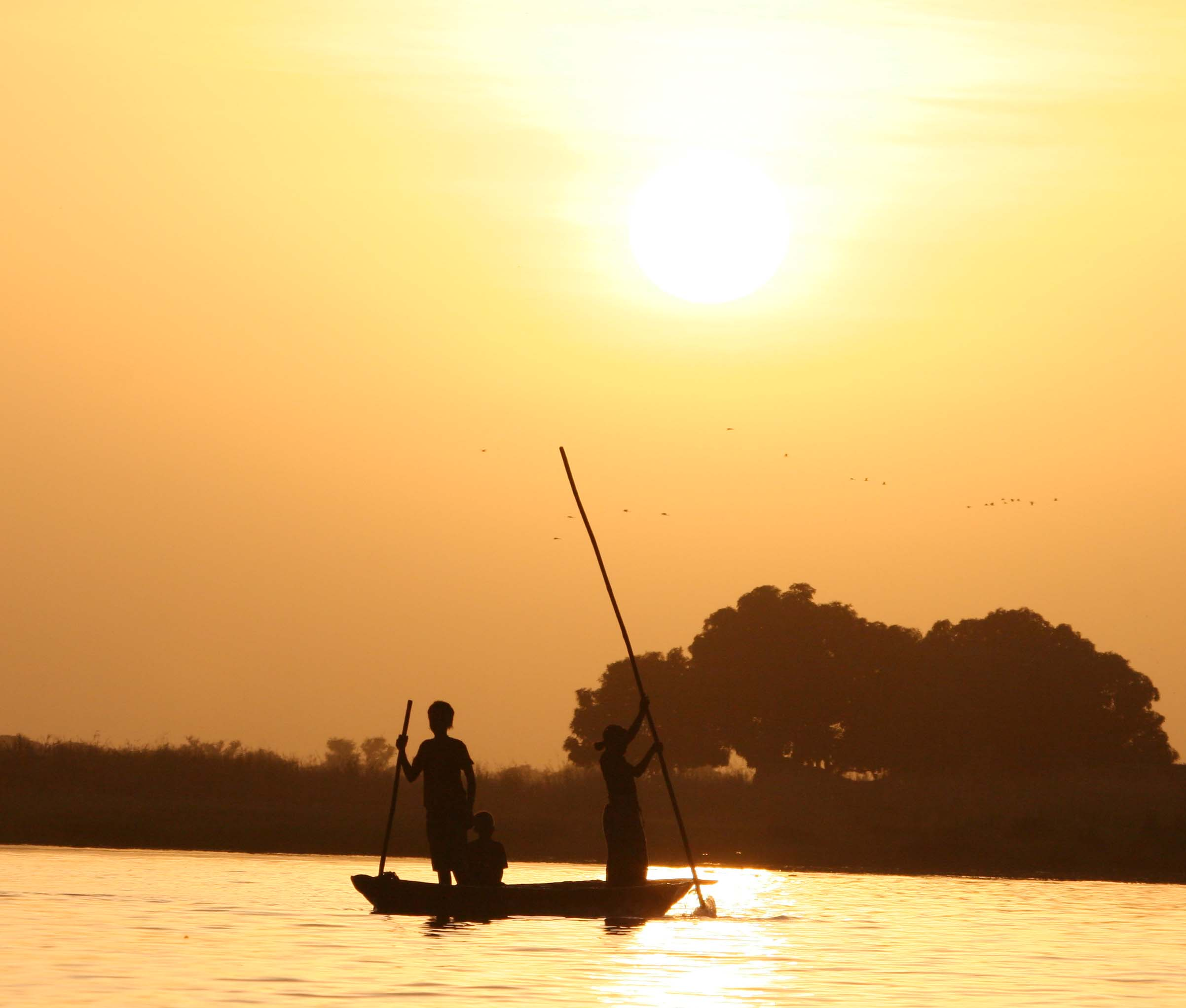 Mali fishermen on the niger river of the ethnic group Bozo.